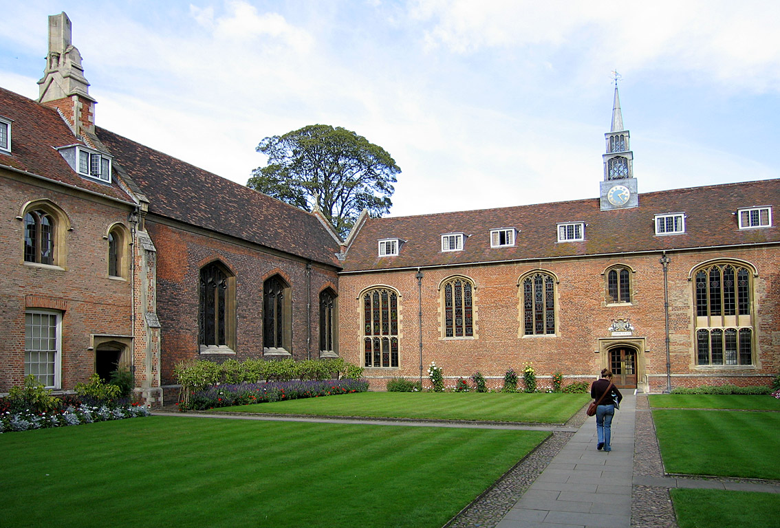 Part of the First Court of Magdalene College, Cambridge, England